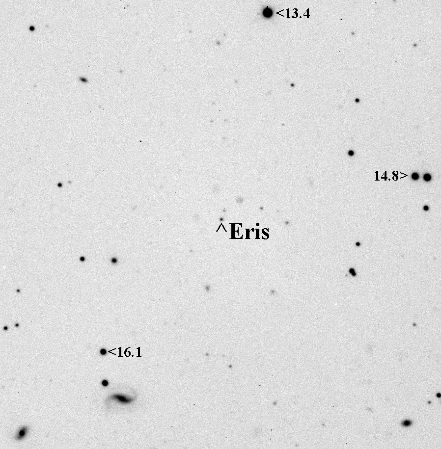 8 minute exposure of dwarf planet Eris with a 24" telescope. Eris is about apparent magnitude 18.7 in this image taken at 2009-11-09 06:30 UT. The moon was 54% at 110 degrees from Eris and was just starting to rise. The galaxy PGC 144213 is visible at the bottom of the image. For comparison the apparent magnitude of some of the stars are labeled.